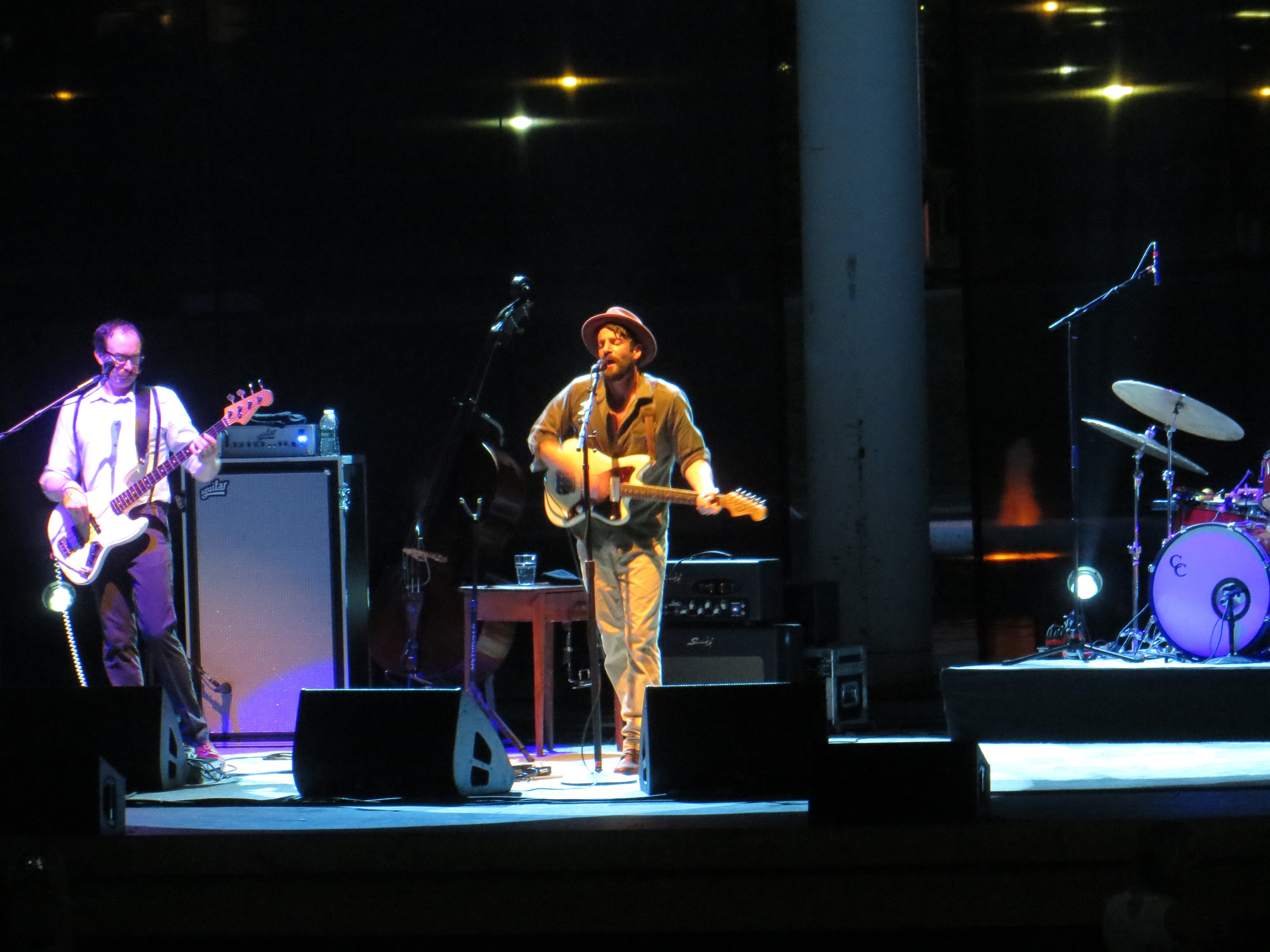 Ray LaMontagne playing at the Jacobs Pavilion at Nautica in Columbus, Ohio, 11 June 2014